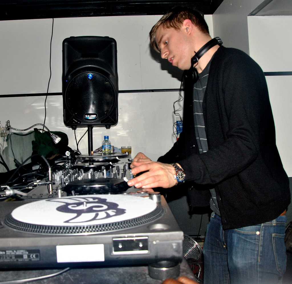 4/12/09 Superfly in Leicester